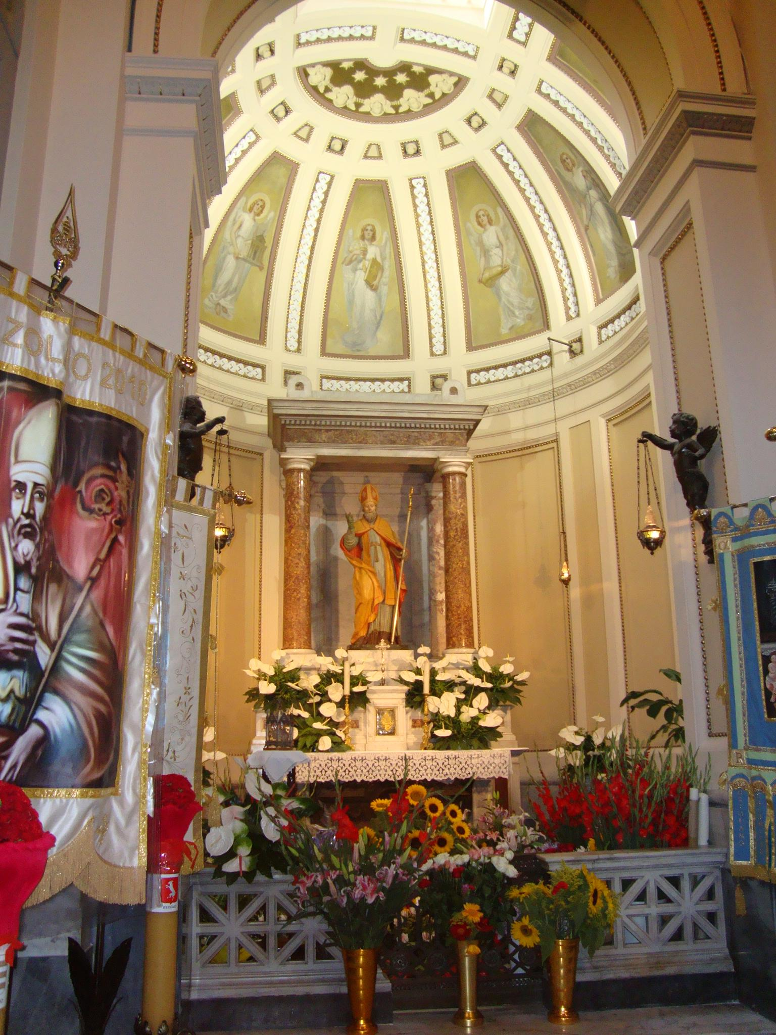 The interior of Nola Duomo Church, Nola Italy